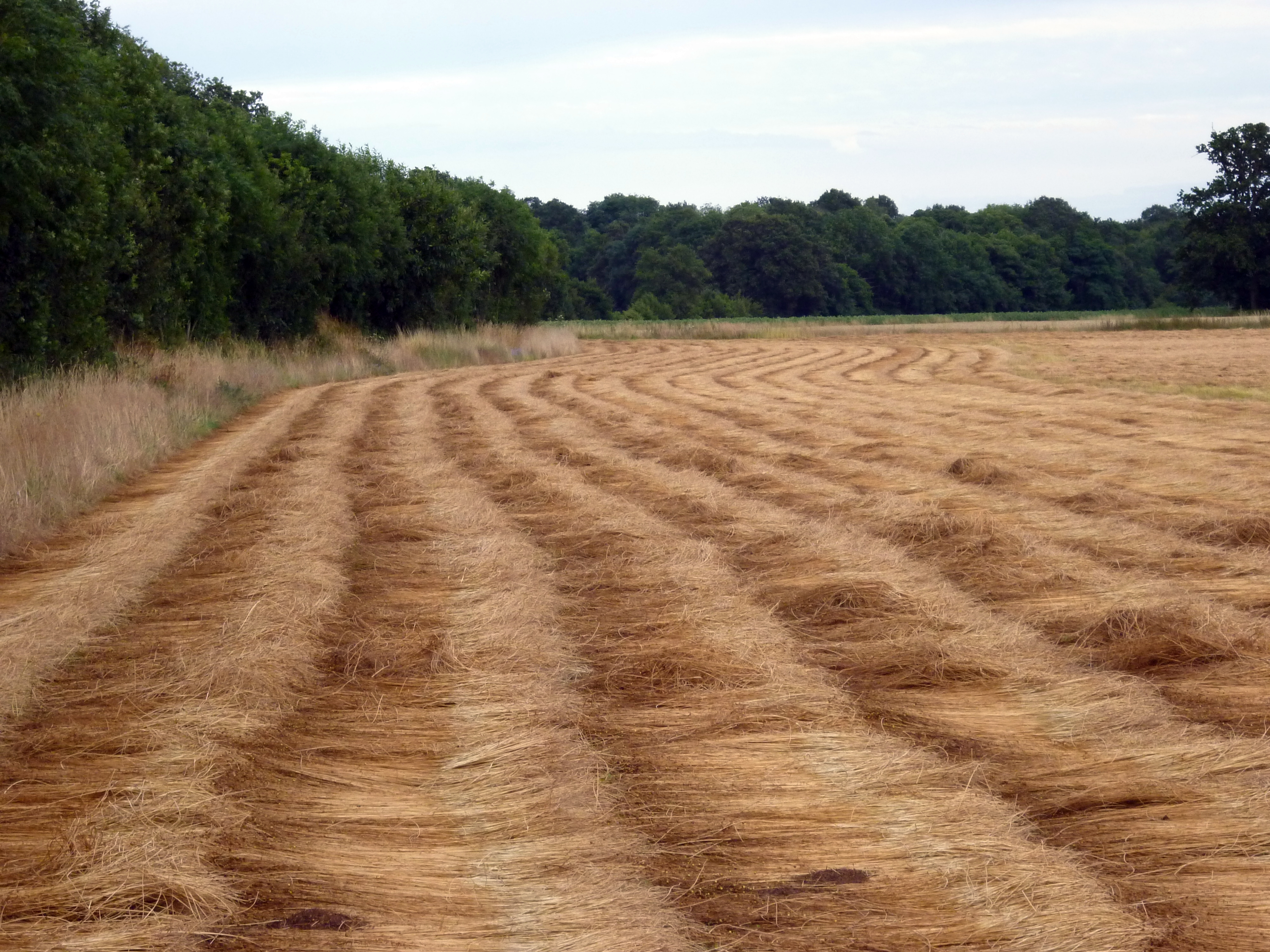 Dew retting of flax in Morsan (Eure, Haute-Normandie, France).